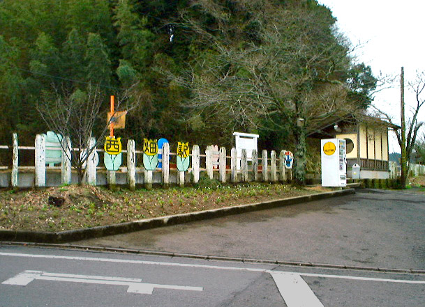 Nishihata Station, Otaki, Chiba, Japan in December 2002